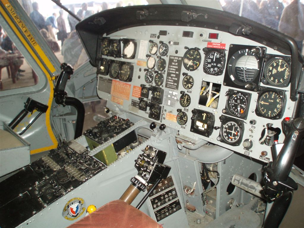 Interior of Bell UH-1B Iroquois (s/n:63-08588).